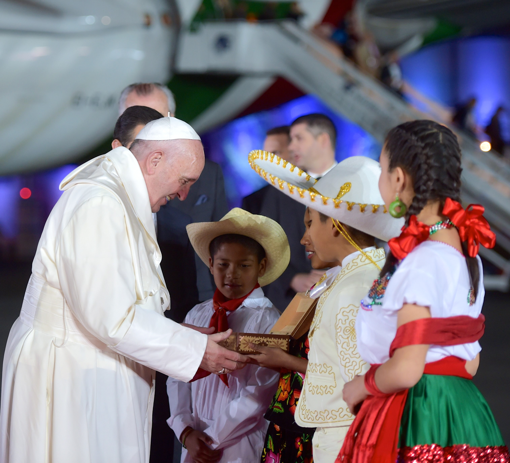 12 de febrero del 2016